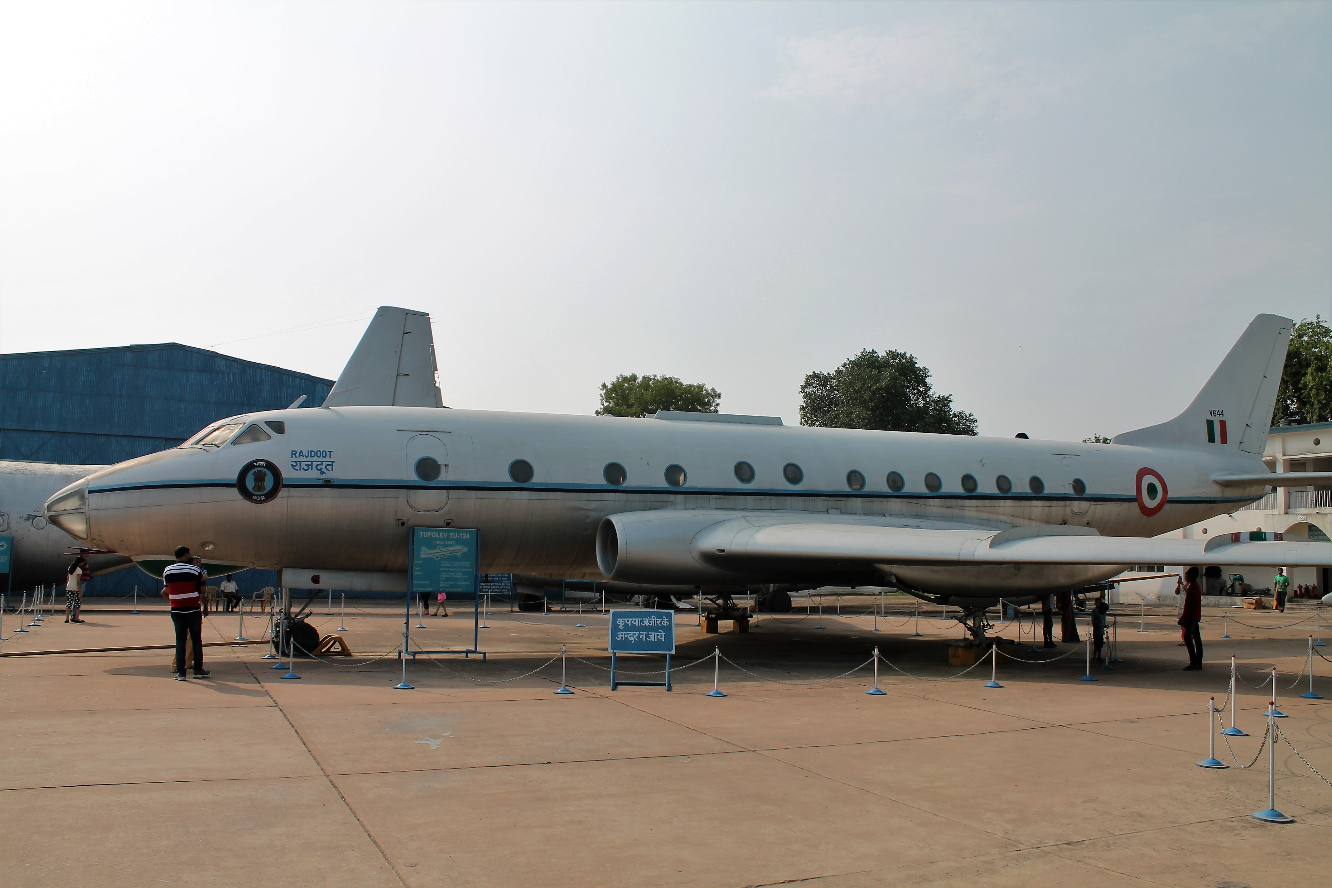 Tupolev Tu-124 - Indian Air Force